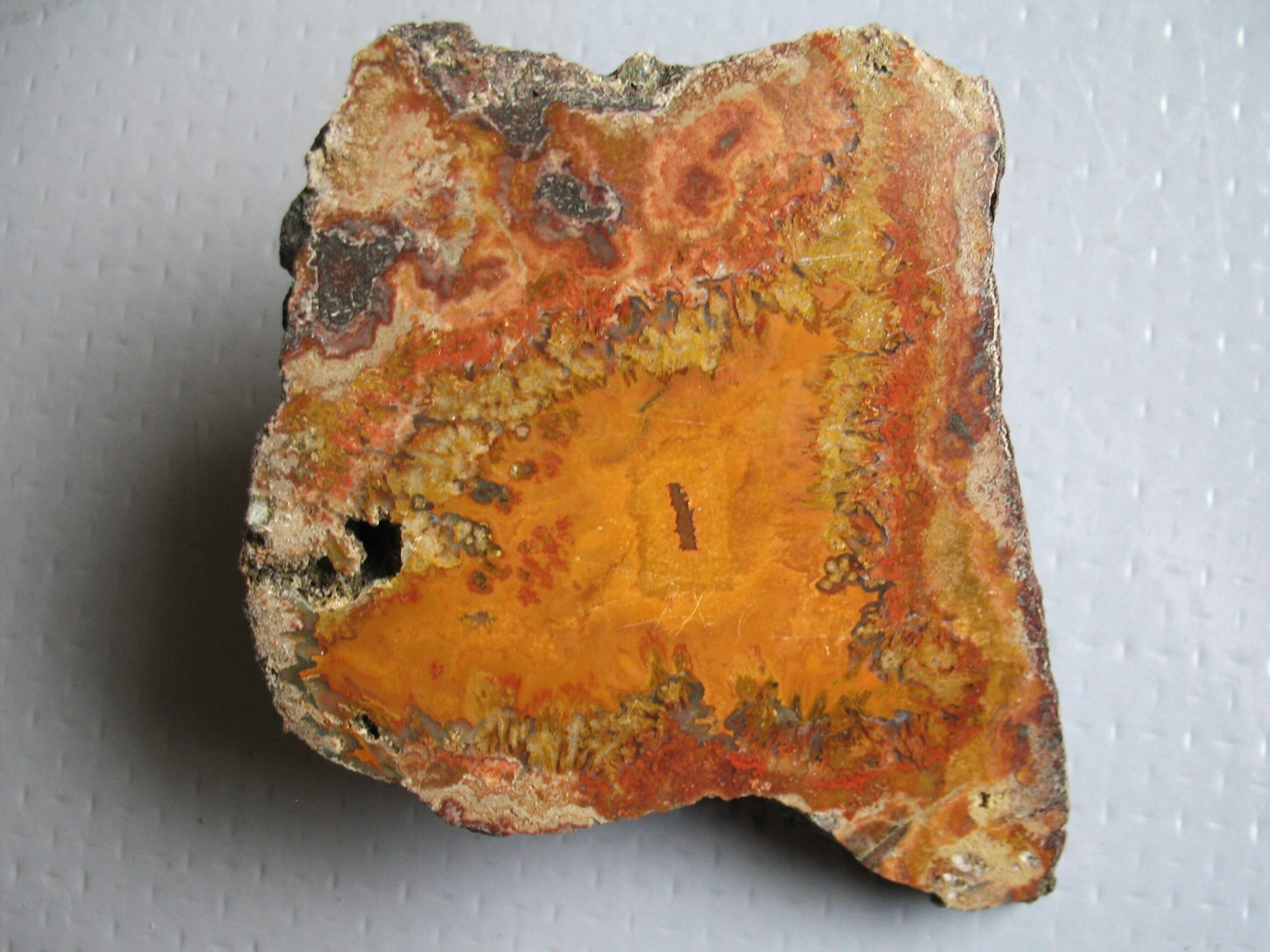 Locality: Doubravice (Jičín)